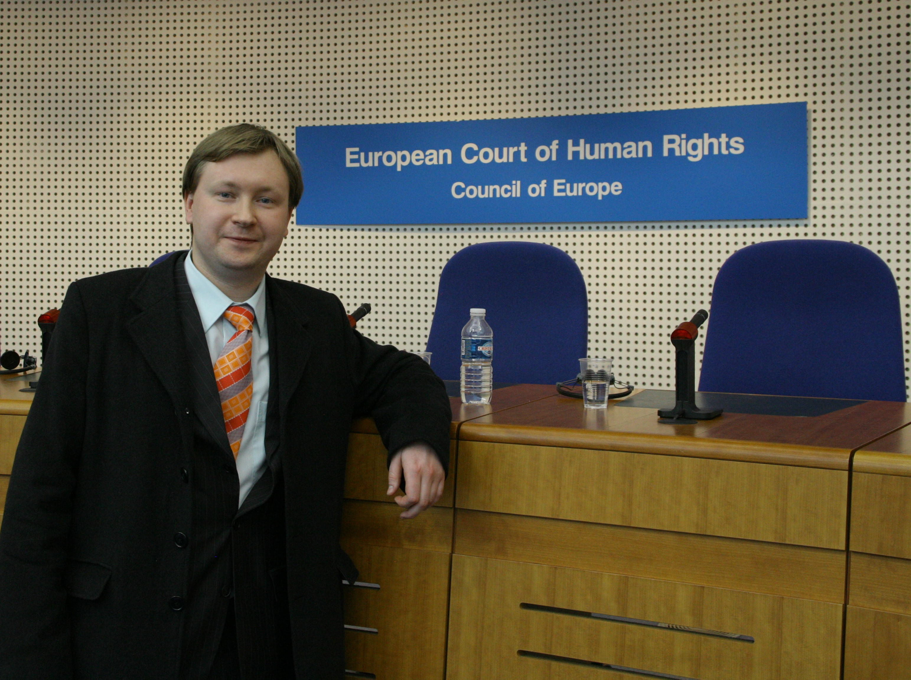 Moscow Pride organizer Nikolay Alexeyev at the European Court of Human Rights